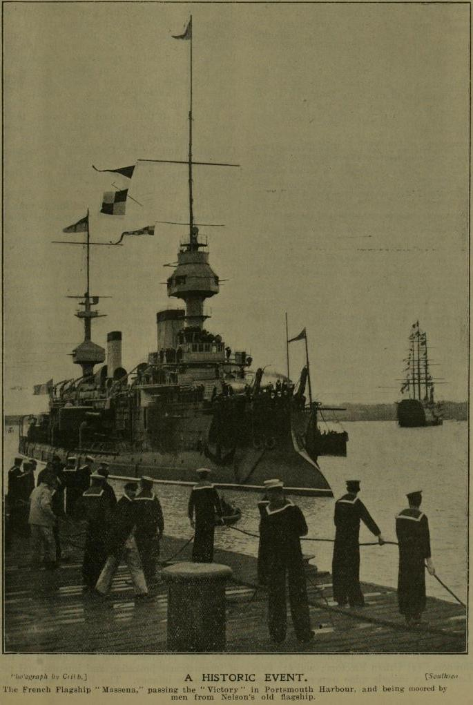 Two notable ships passing : French battleship Masséna with HMS Victory in the background.